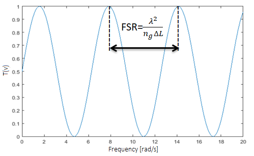 Free Spectral Range